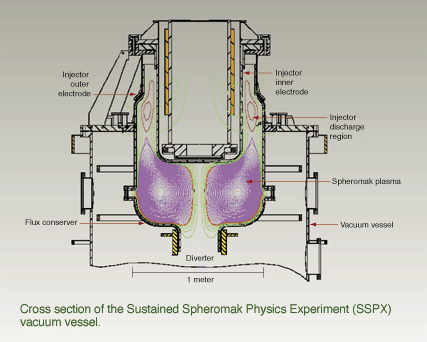 Cross section of the SSPX Spheromak, operational since 1999. SSPX is the latest of the experiments in magnetic fusion energy research at Lawrence Livermore National Labs.